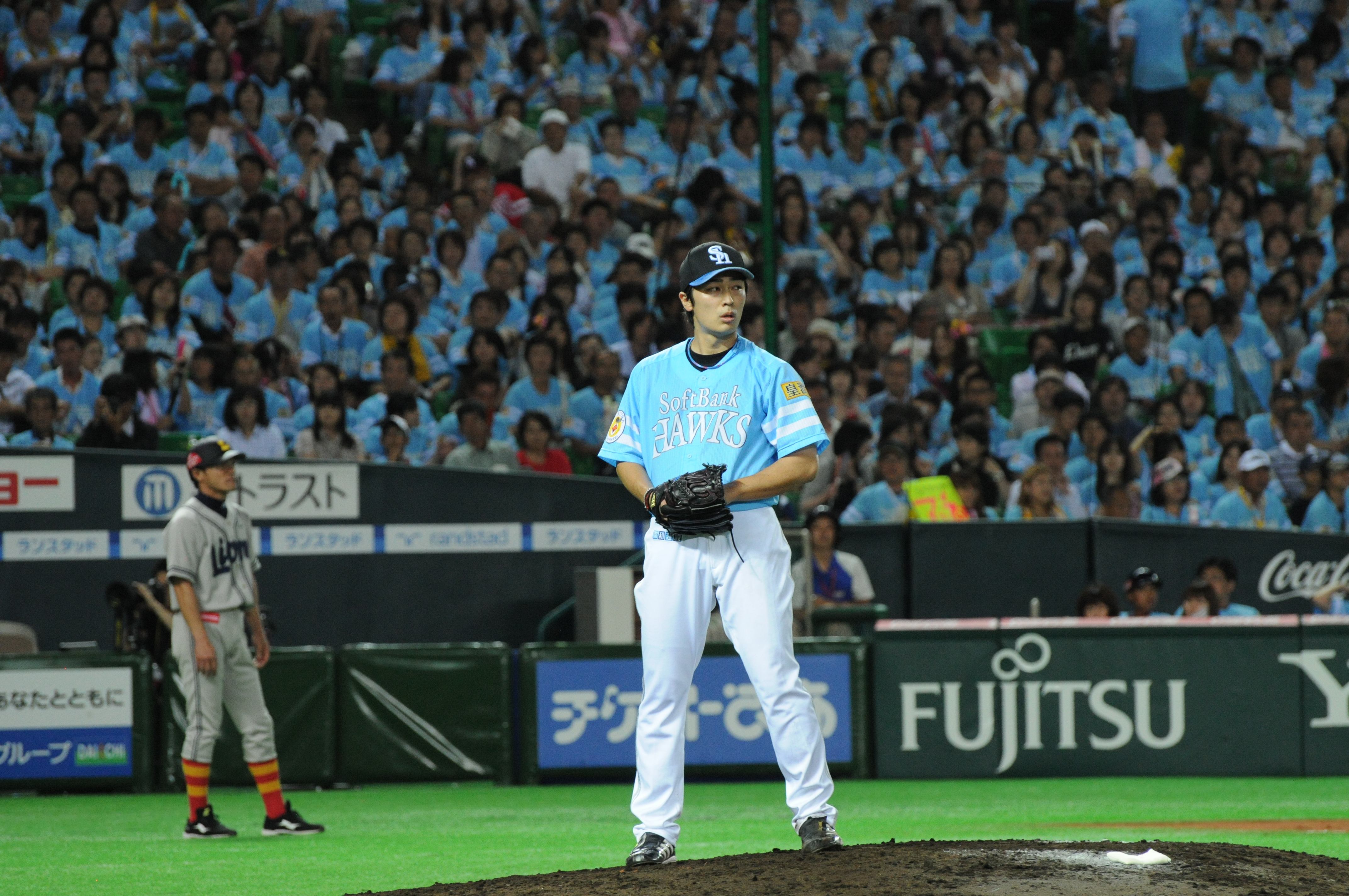 Tsuyoshi Wada, pitcher of the Fukuoka SoftBank Hawks, at Fukuoka Dome.